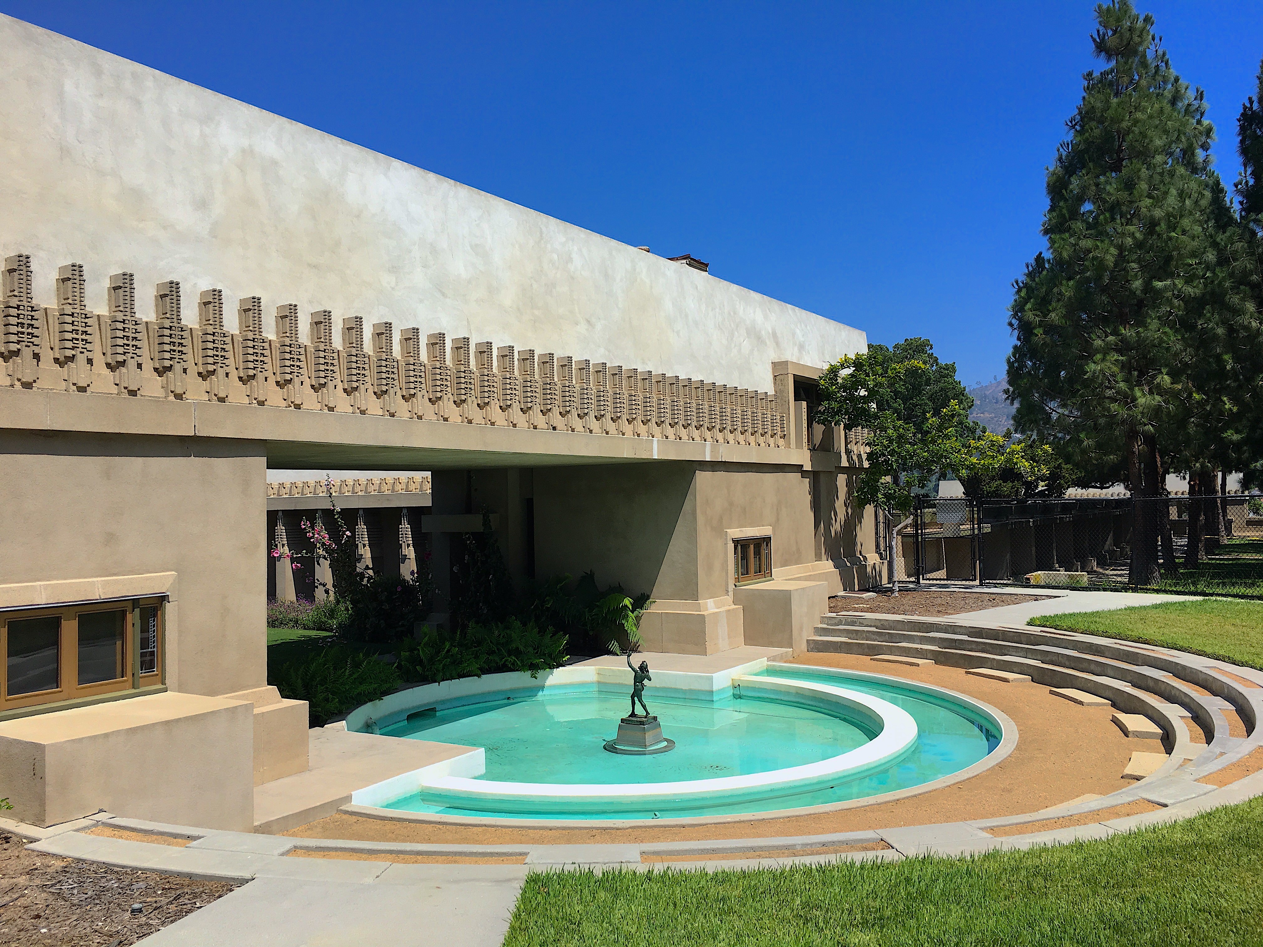 The Hollyhock House by Frank Lloyd Wright is now the first UNESCO World Heritage Site in Los Angeles